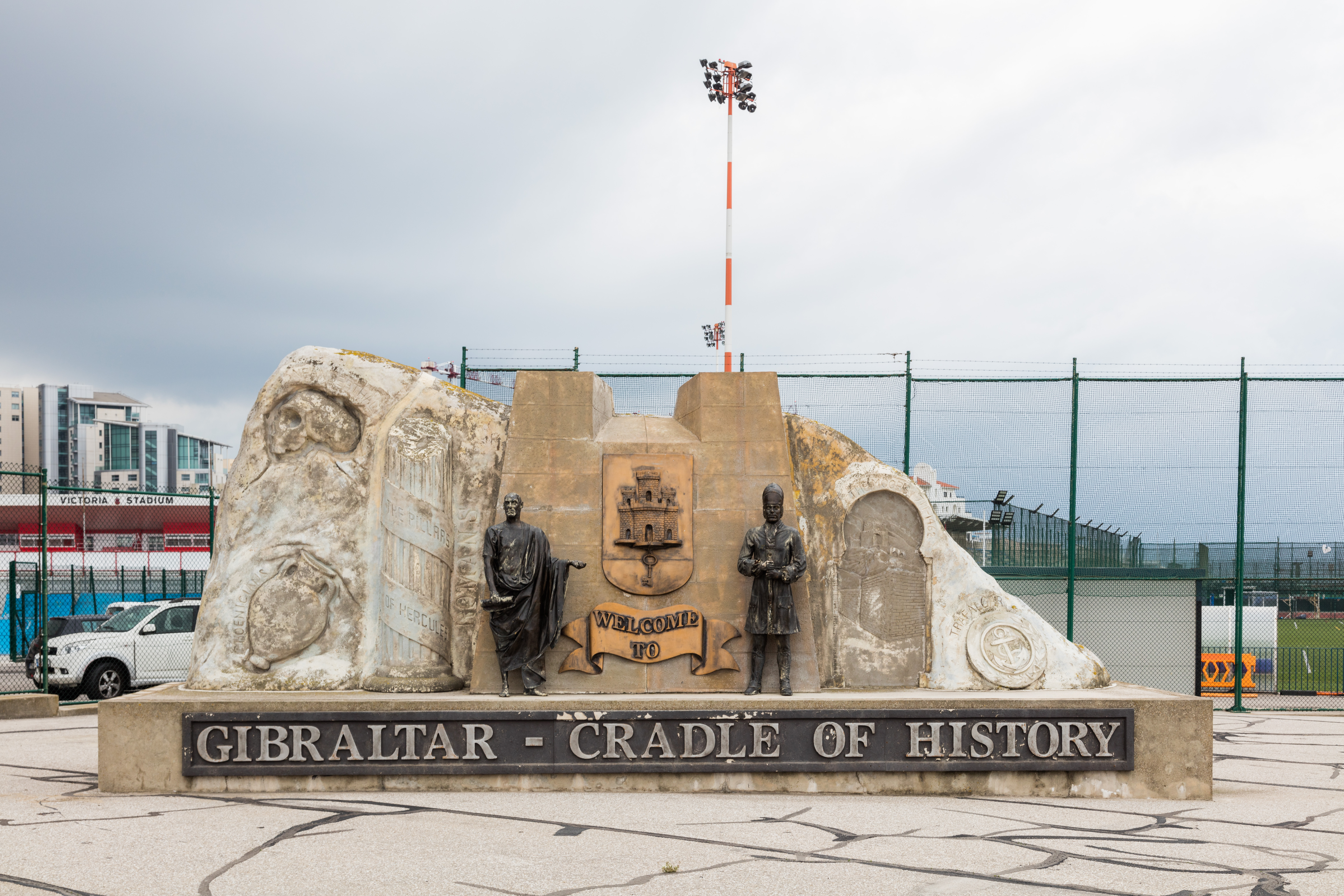 Welcome monument, Gibraltar